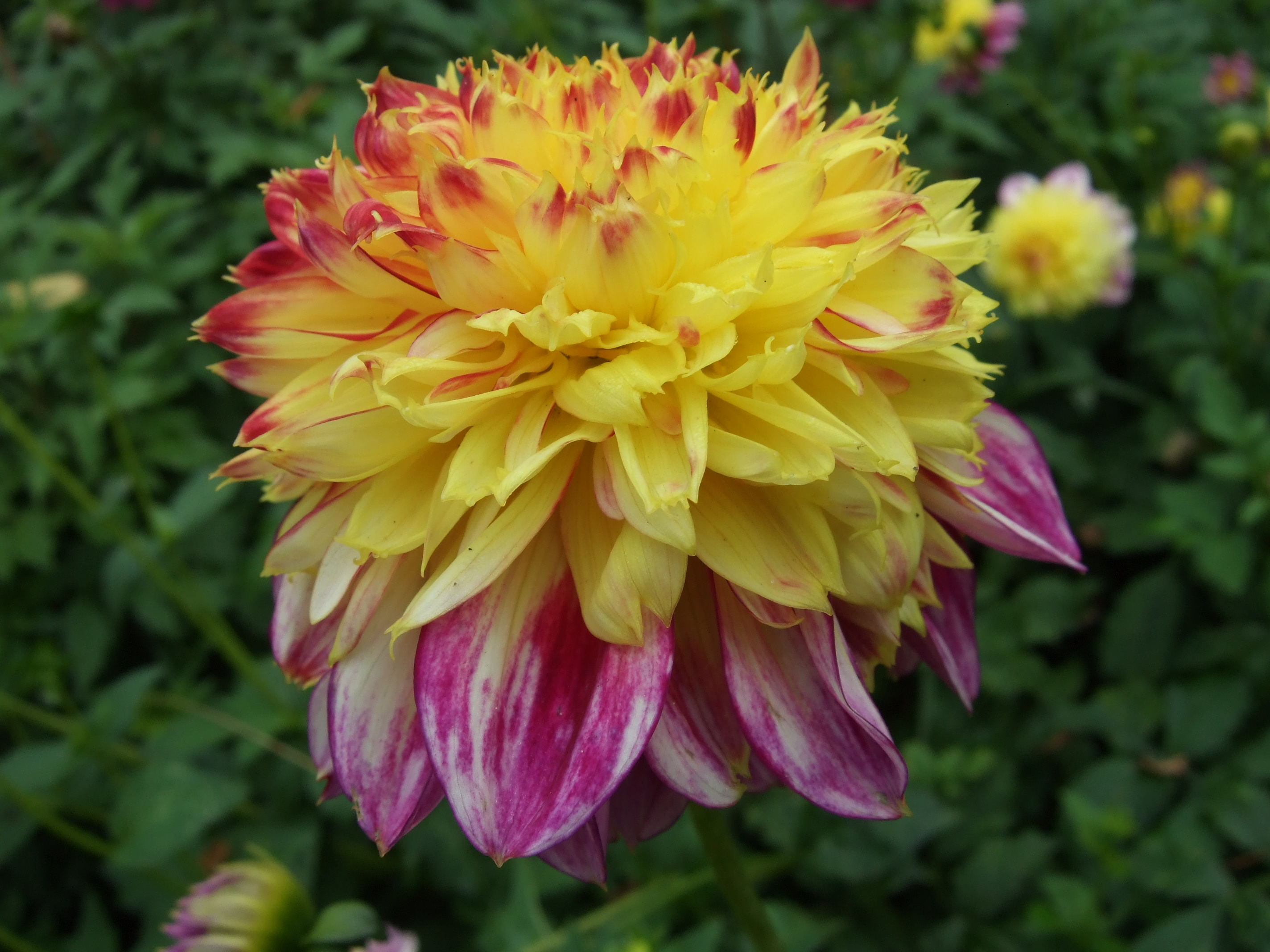 Dahlia 'Boogie Woogie' (E.van Dongen, 2001 The Netherlands), flowering in the Britzer Garten, Berlin